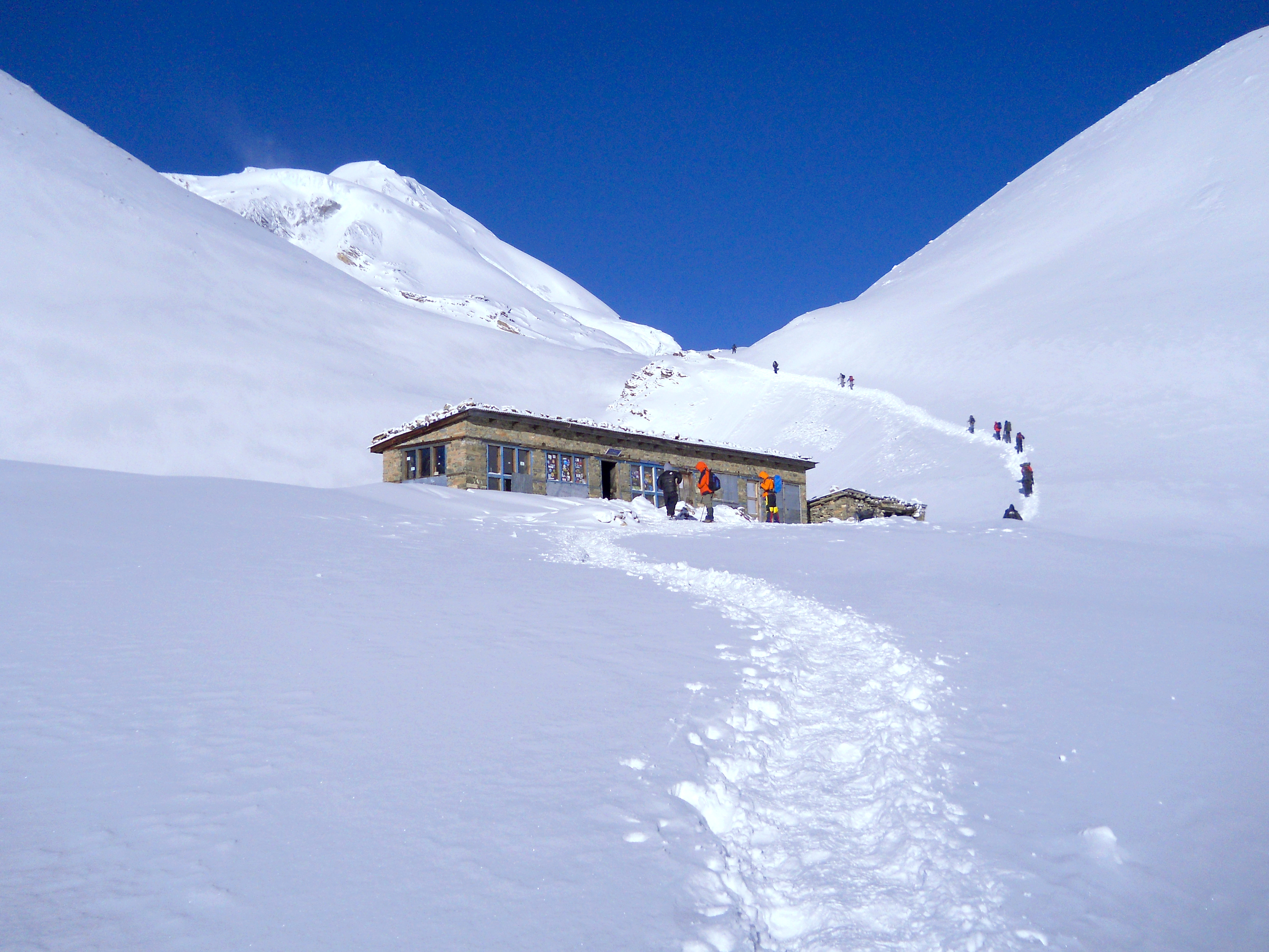 Trekking route from Manang to Mustang district of Nepal. A small tea house on the way to Thorong Pass.